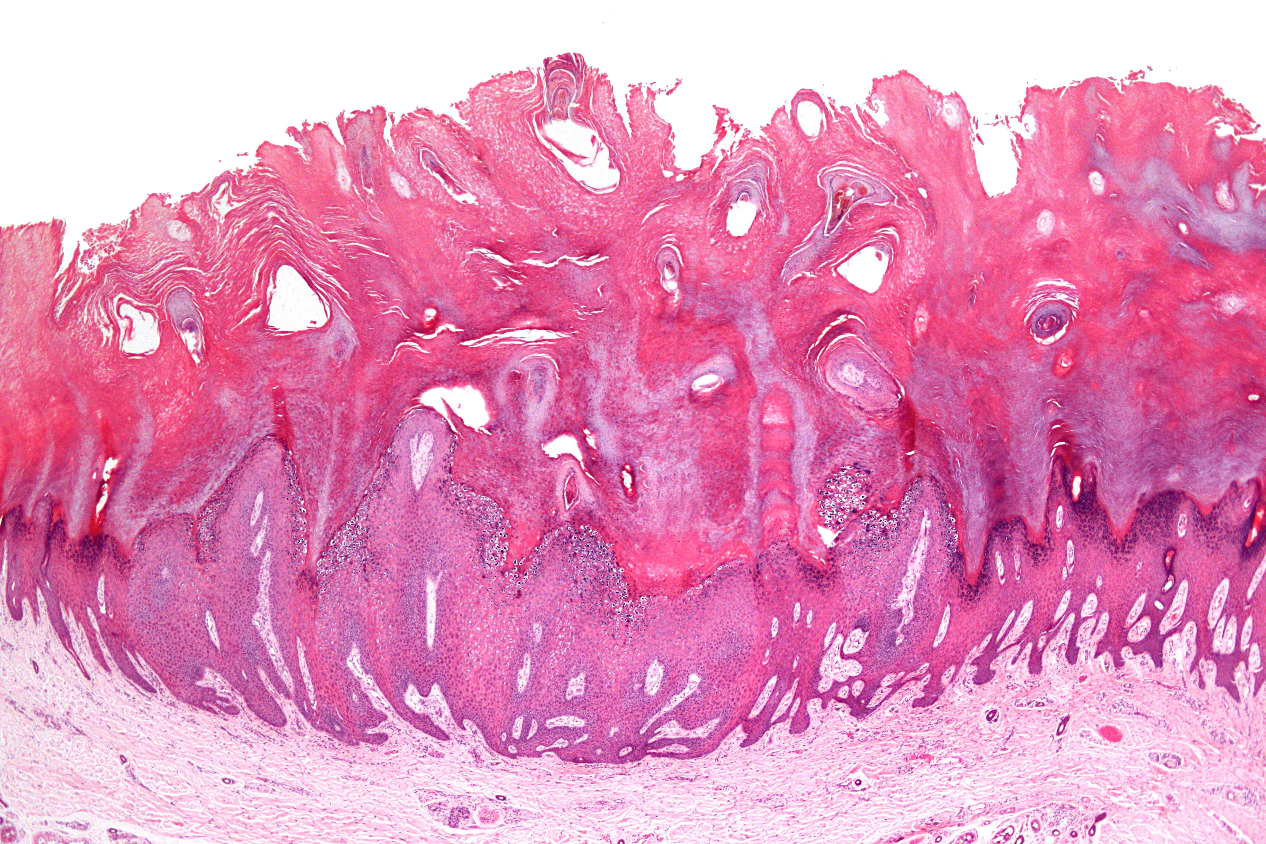 Very low magnification micrograph of a verruca vulgaris, a common wart. H&E stain. Features: Hyperkeratosis. Acanthosis. Hypergranulosis. Long rete ridges. Large blood vessels at the dermal-epidermal junction. Related images Very low mag. Low mag. Intermed. mag. High mag.